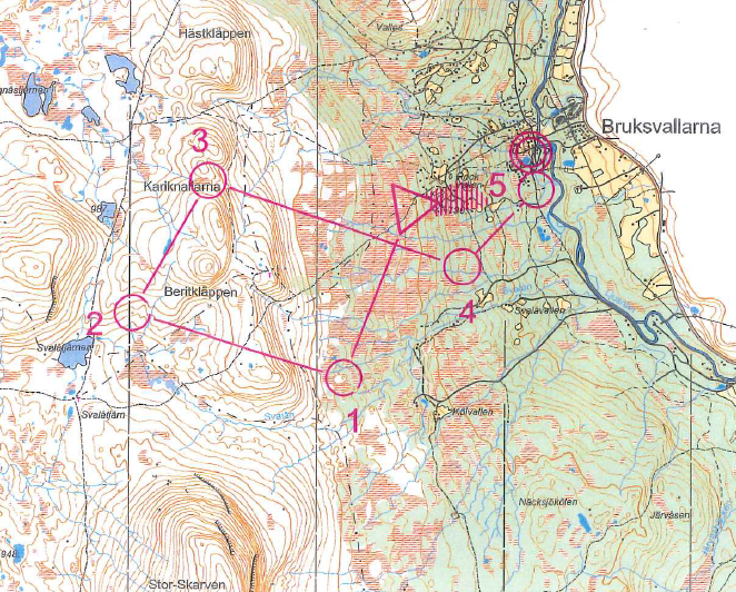 Example map from Fjällorienteringen. The course in the example is 10,4 kilometers long and was used in 2013.